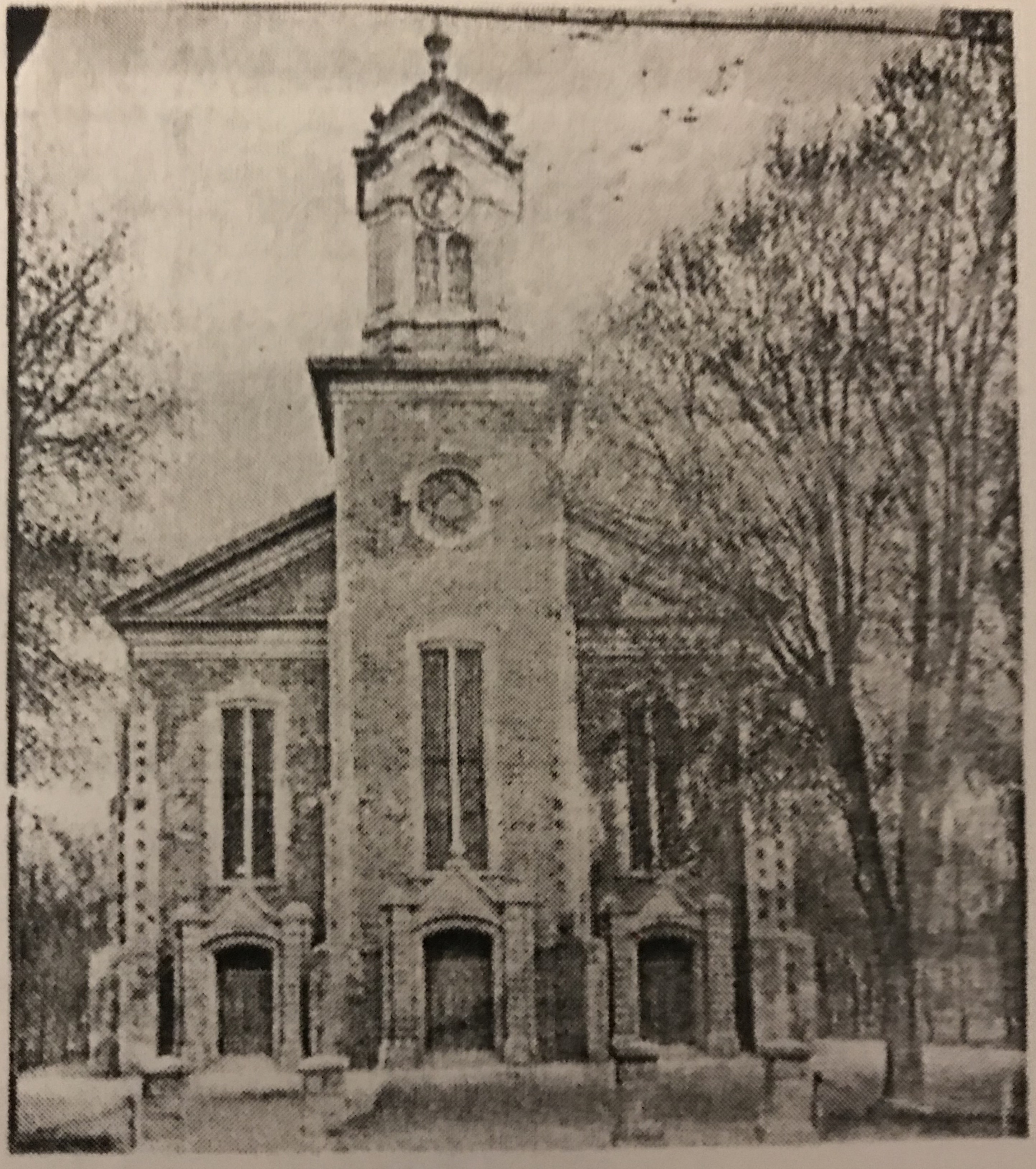 Looking east